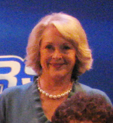 Judith Keppel at the filming of BBC2 daytime quiz Show 'Eggheads'